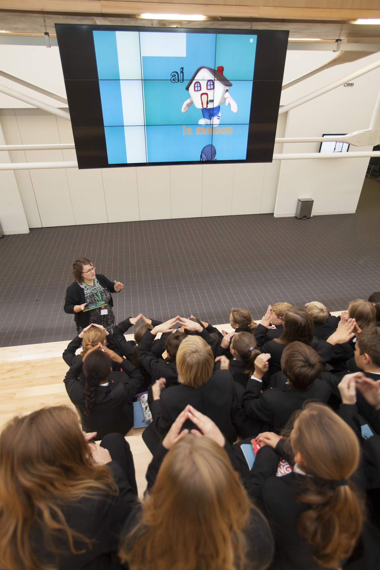 A french lesson on the Hellerup staircase at Catmose College, Oakham, Rutland